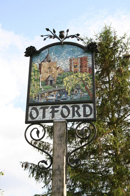 Otford Village sign Depicting St.Bartholomew's church, the Bishop's Palace and the pond